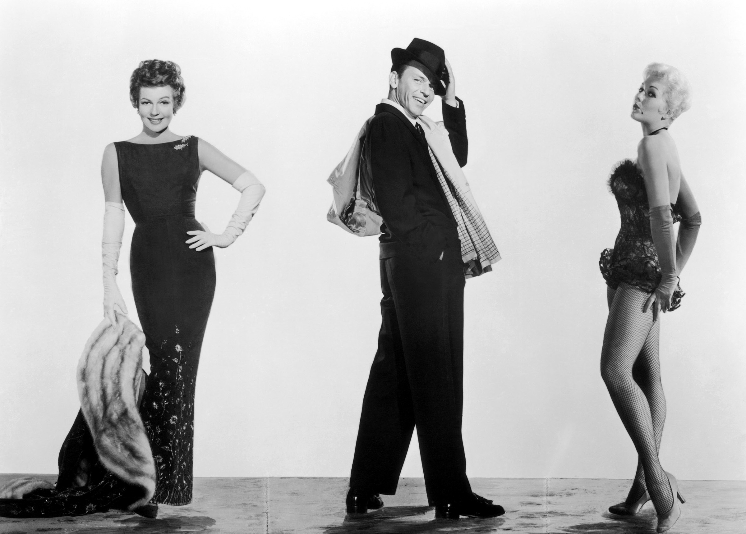 Promo still of Rita Hayworth, Frank Sinatra, Kim Novak in the 1957 film Pal Joey. Portrait artist Nicholas Volpe used Sinatra's pose in this photo as a model for his 1975 painting of the older Sinatra, which can be seen at and Bonhams. According to Bonhams, the painting hung in the Friars Club of Beverly Hills for many years.